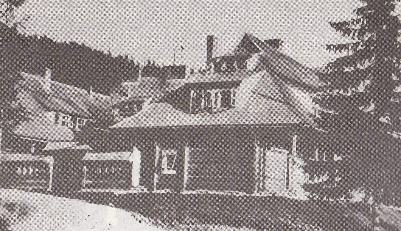 Mountain hut of Warsaw Skiers Association in Rafajłowa (now Bistrica in Nadvirna Raion)